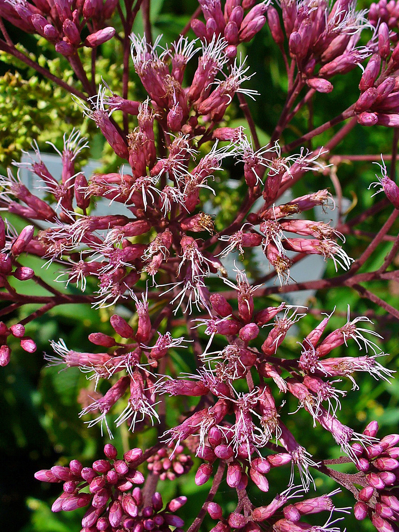 Eutrochium purpureum, Asteraceae, Kidney-root, Sweetscented Joe-Pie Weed, Trumpet weed, inflorescences. The root is used in homeopathy as remedy: Eupatorium purpureum (Eup-pur.)